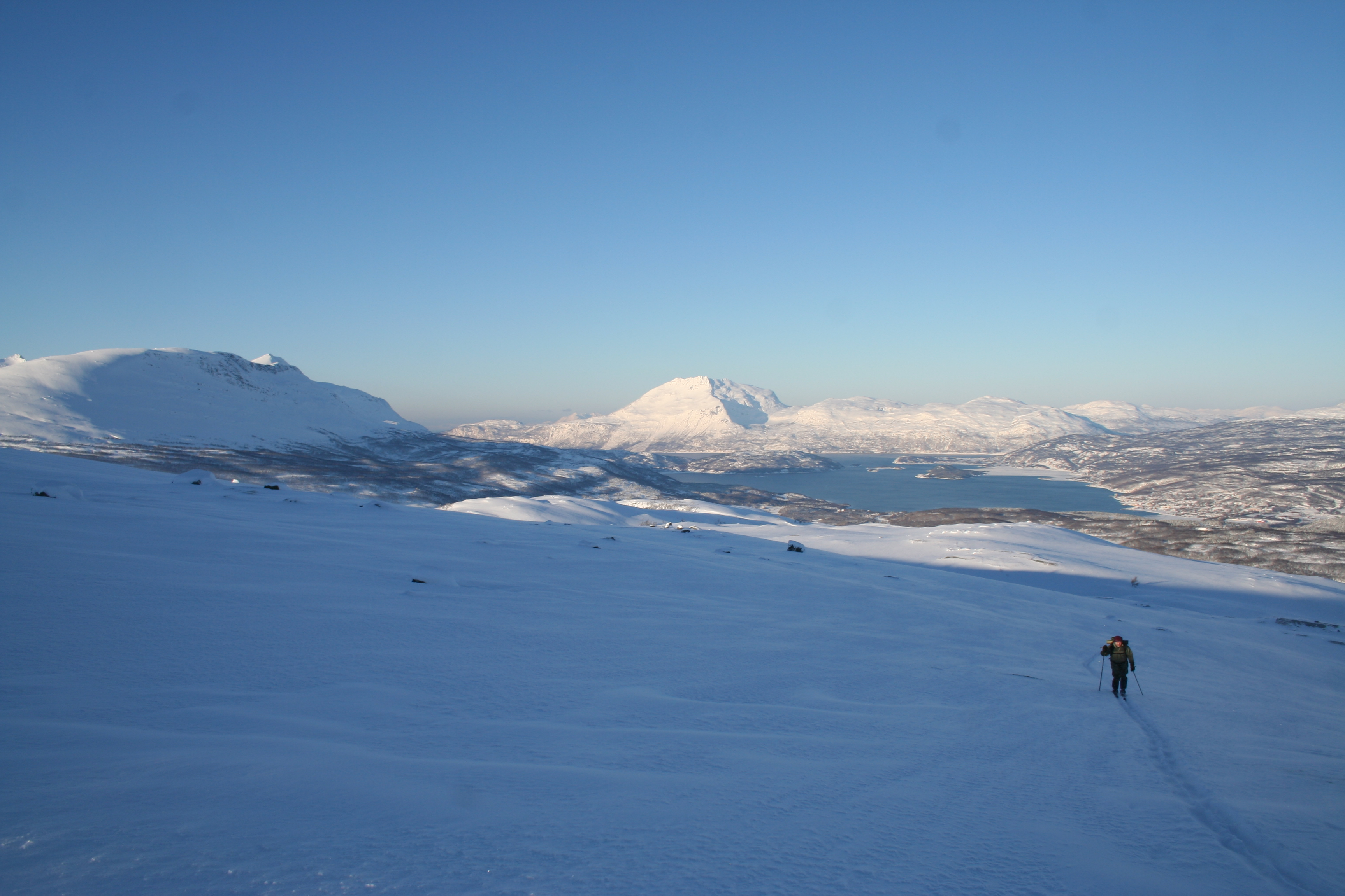 The picture shows Sagfjorden in Salangen municipality, Troms county, Norway. Sjøvegan, the municipality centre lies in the centre right of the picture. On the left hand you can see the Lifjellet mountain (ca. 1000 metres) and the peak of Høgfjellet (ca. 1200 metres). In the centre of the picture you can see Løksetinden (ca. 1200 metres).